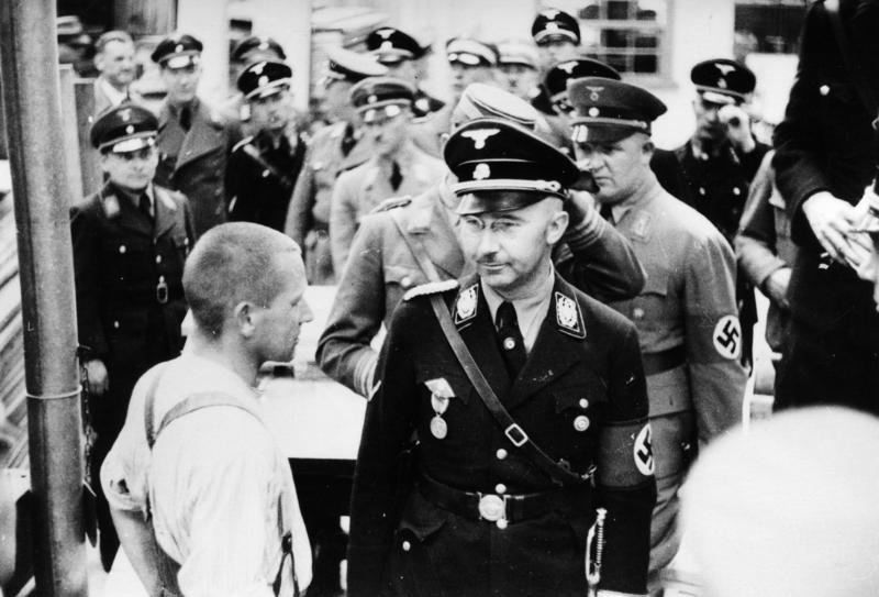 Protective Custody Camp Dachau -- Inspection by the Nazi party and Himmler Abgebildete Personen: Himmler, Heinrich: Reichsführer der SS, Deutschland (GND 11855123X)